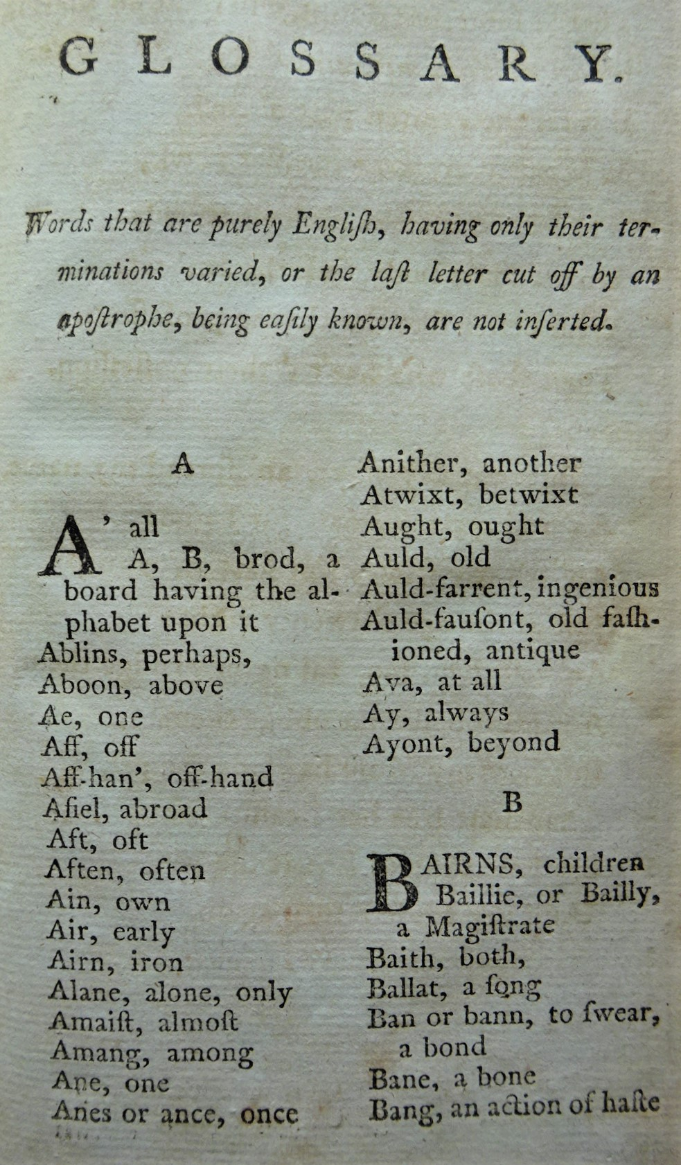 A page of the 'Glossary' from 'Poems' by David Sillar 1789.